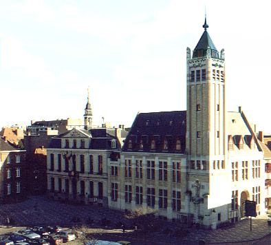 Town hall on the great market square, Roeselare (Belgium)